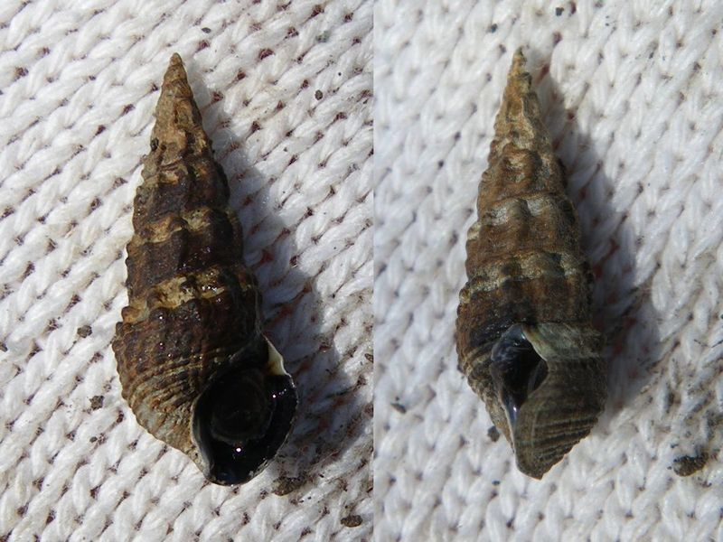 Batillaria zonalis (Bruguiére,1792)